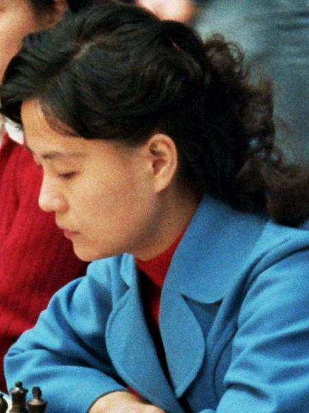 Wu Mingqian, Chess Olympiad 1982 in Luzern, Photographer Gerhard Hund.